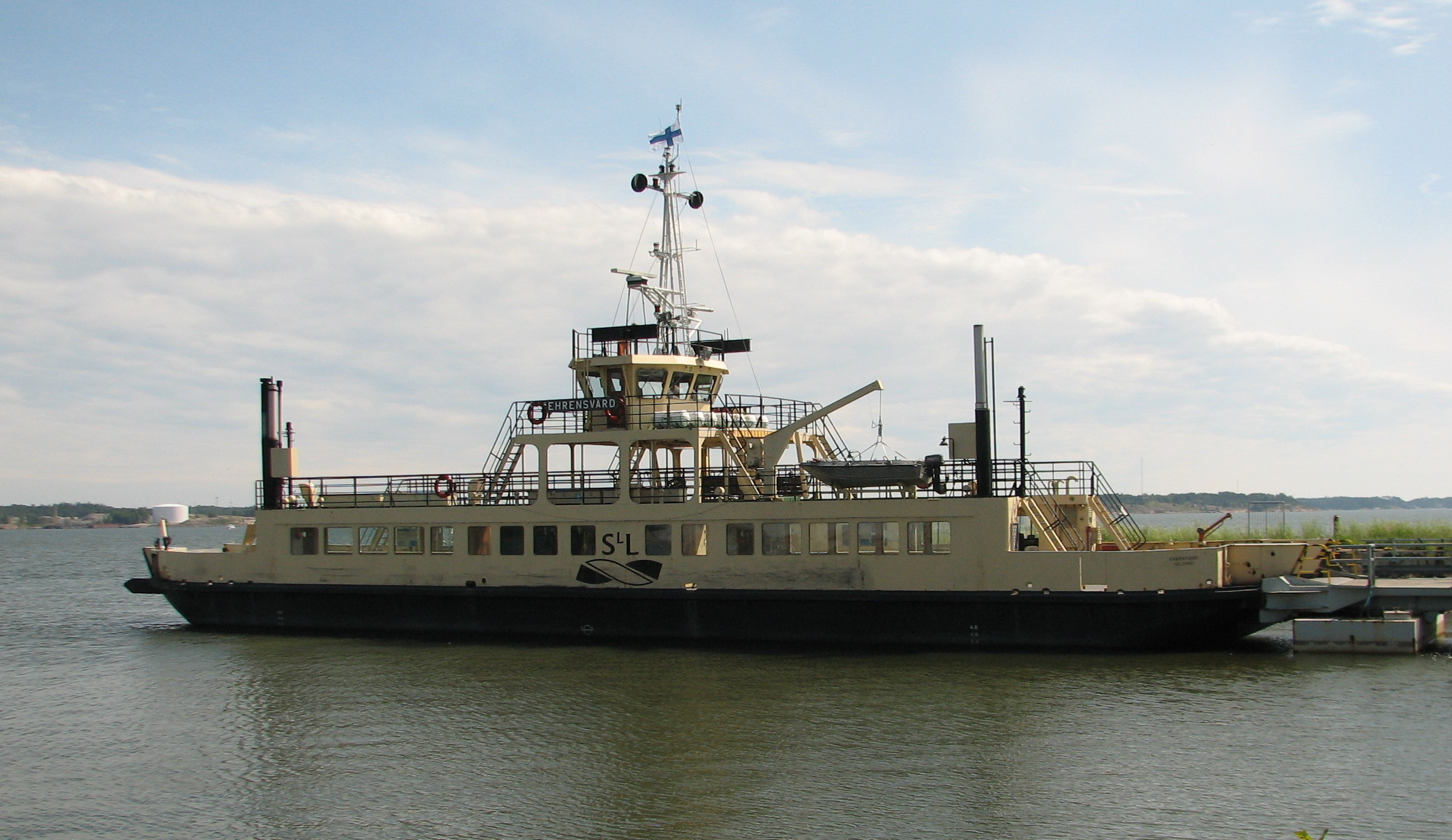 Files uploaded by PDTillman Helsinki